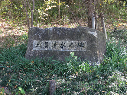 Saitama